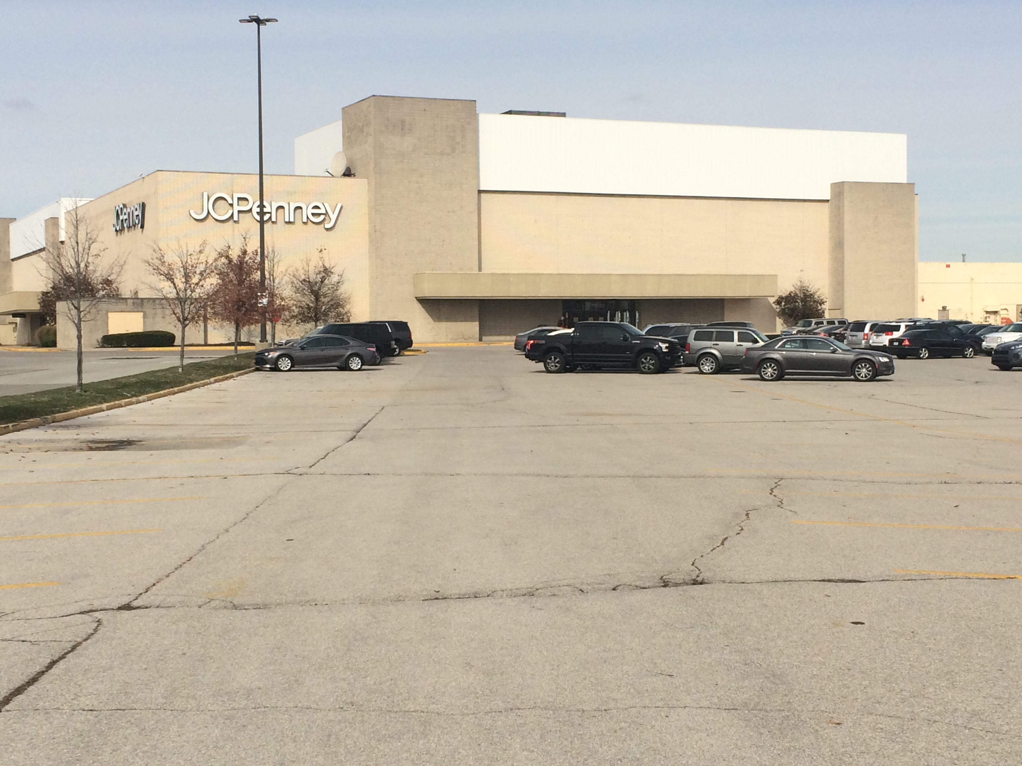 J.C. Penney store at Castleton Square mall in Indianapolis, Indiana